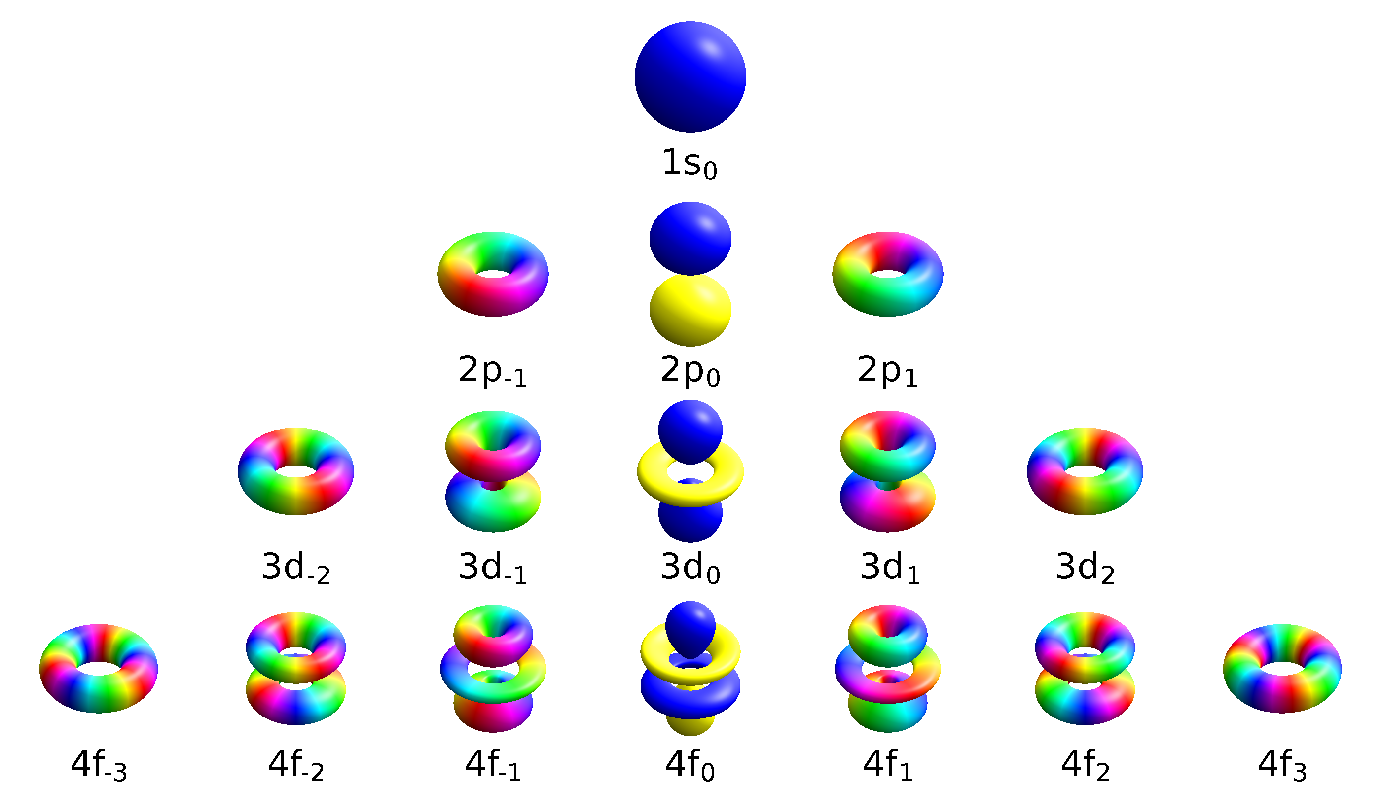 Collection of 16 atomic single-electron orbitals for the lowest four n quantum numbers. Only the cases n = l + 1 {\displaystyle n=l+1} with one radial node are shown. Each row shows one l-quantum number l=0 (s), l=1 (p), l=2 (d) and l=3 (f) with m quantum numbers m ∈ { − l , … , l } {\displaystyle m\in \{-l,\ldots ,l\ in ascending order. The color depicts the complex-valued phase of the wavefunction. In contrast to the real-valued orbitals in chemistry, which are superpositions of several m-eigenstates, the probability densities shown here are symmetric around the z-axis. The solid bodies enclose the volume where the continuous probability density exceeds a well-chosen threshold. The formulas that describe the orbitals can be found at Hydrogen atom. The labels in the image show the quantum numbers nlm with l encoded as letter.